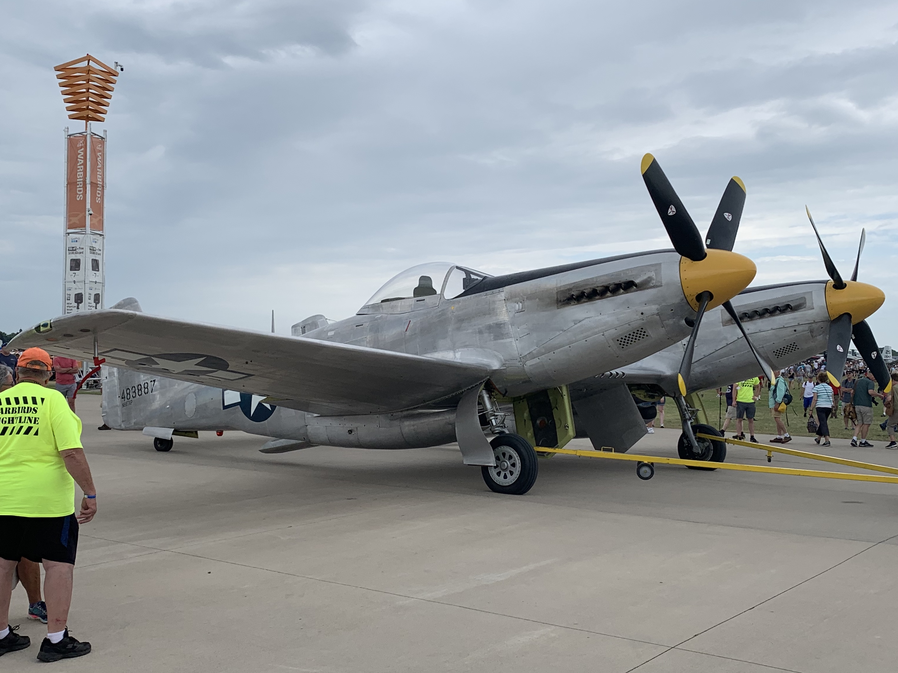 This image is of the North American XP-82 Twin Mustang 44-83887 at EAA AirVenture Oshkosh 2019.